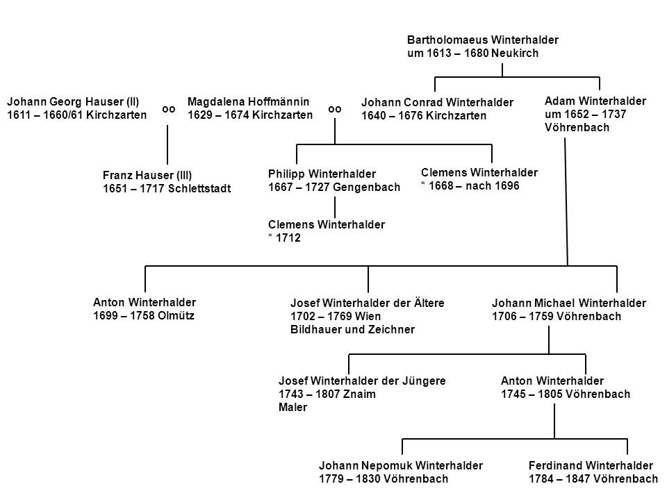 Familiy tree of the Winterhalder family of German baruque sculptors